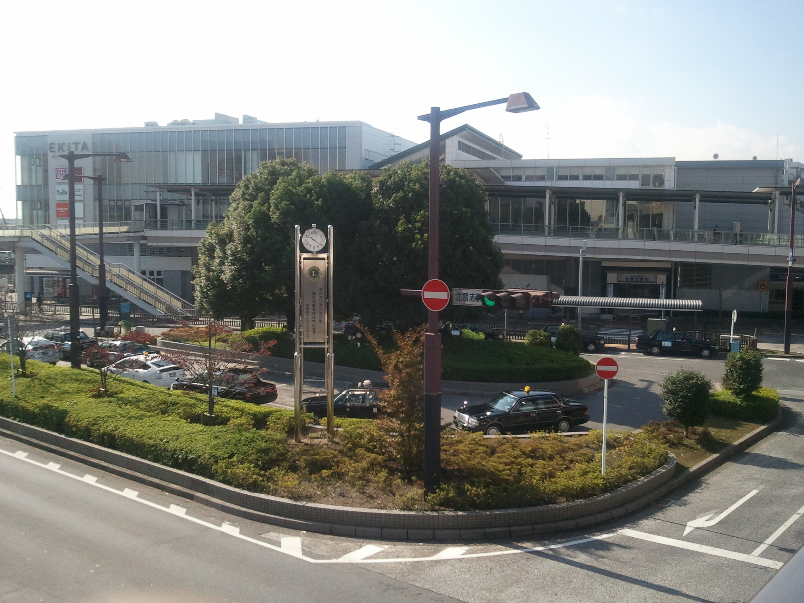 East side of Kita-Narashino Station on the Shin-Keisei Line